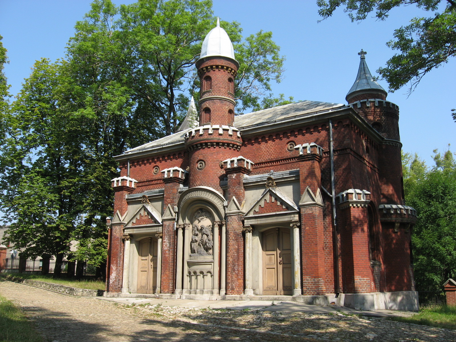 Herod Palace on the Kalwaria hill in Piekary Śląskie